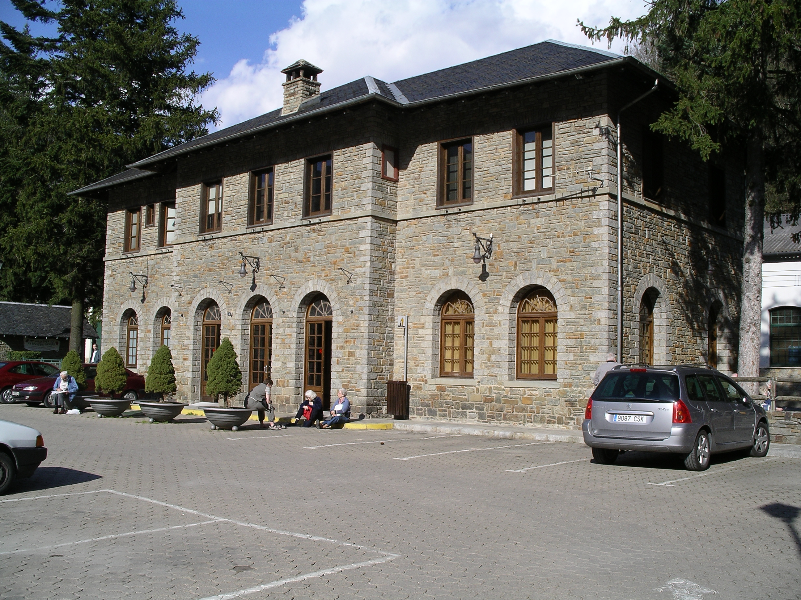 Railway station Ribes Vila front side (Cremallera Vall de Núria) in Ribes de Freser (Catalonia, Spain).